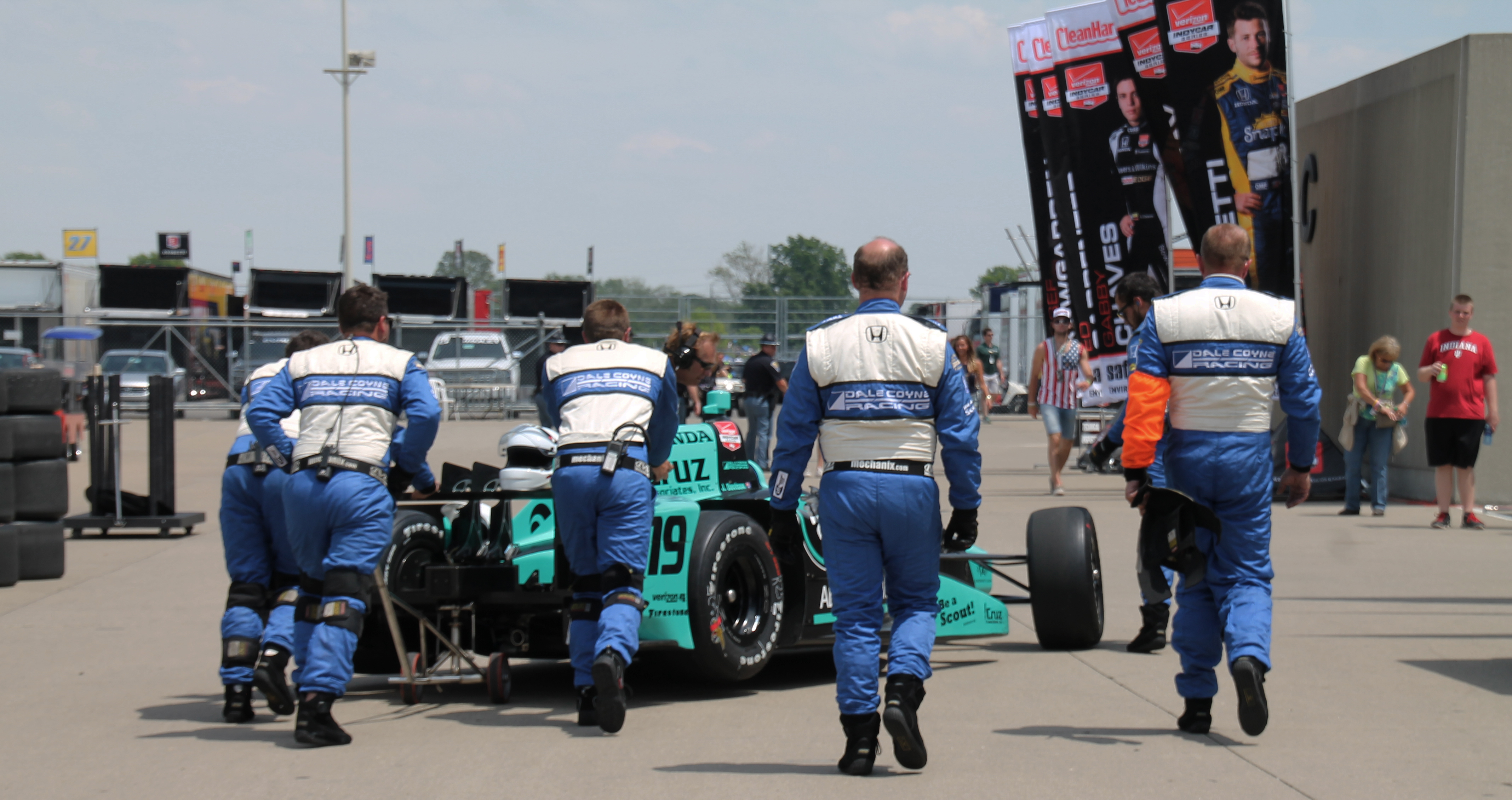 James Davison's car heads back to the garage after a collision in the pits at the 2015 Indianapolis 500